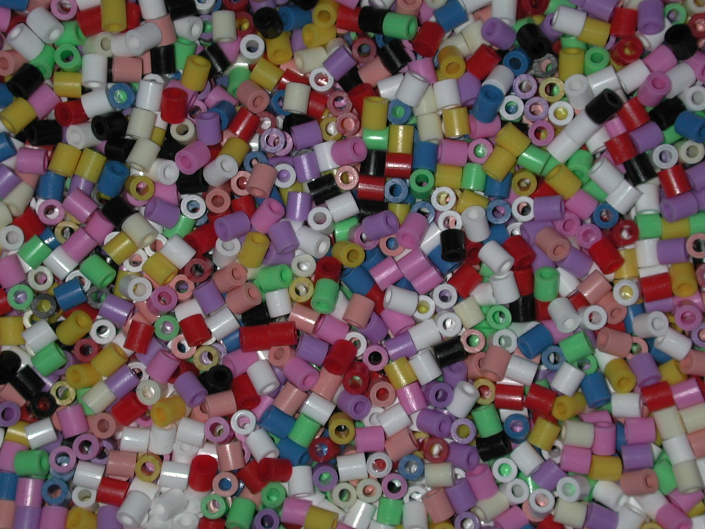 Close-up of a bucket full of midi-sized Hama beads in different opaque colors. The beads are 5mm in diameter and length.